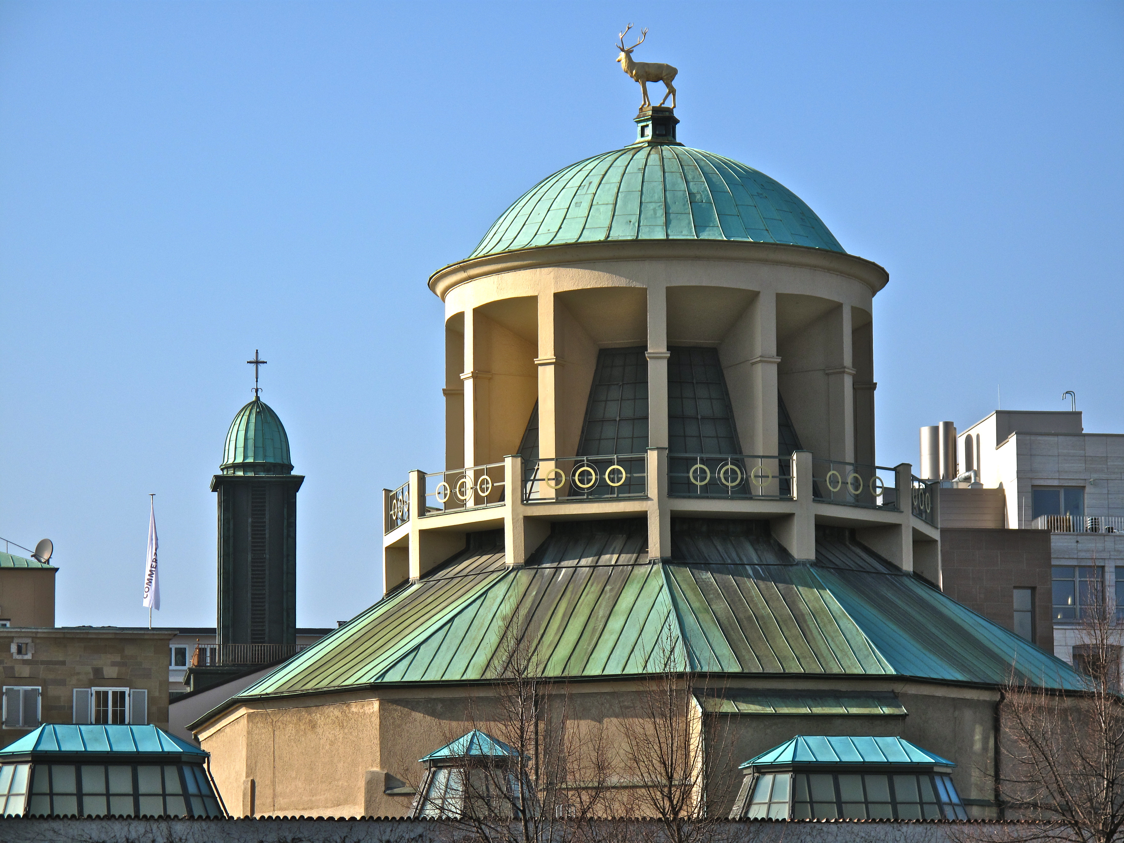 The roof of the Kunstgebäude with a golden stag at the Schlossplatz in Stuttgart.